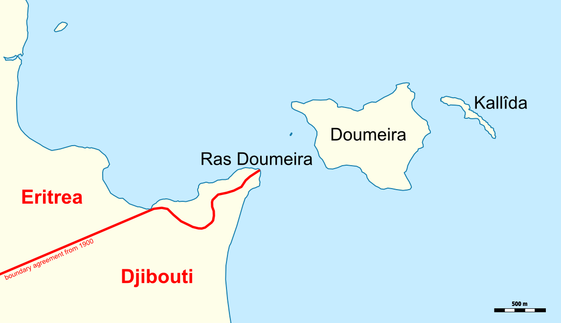 Map showing the disputed territory of Cape Ras Doumeira and Doumeira Islands